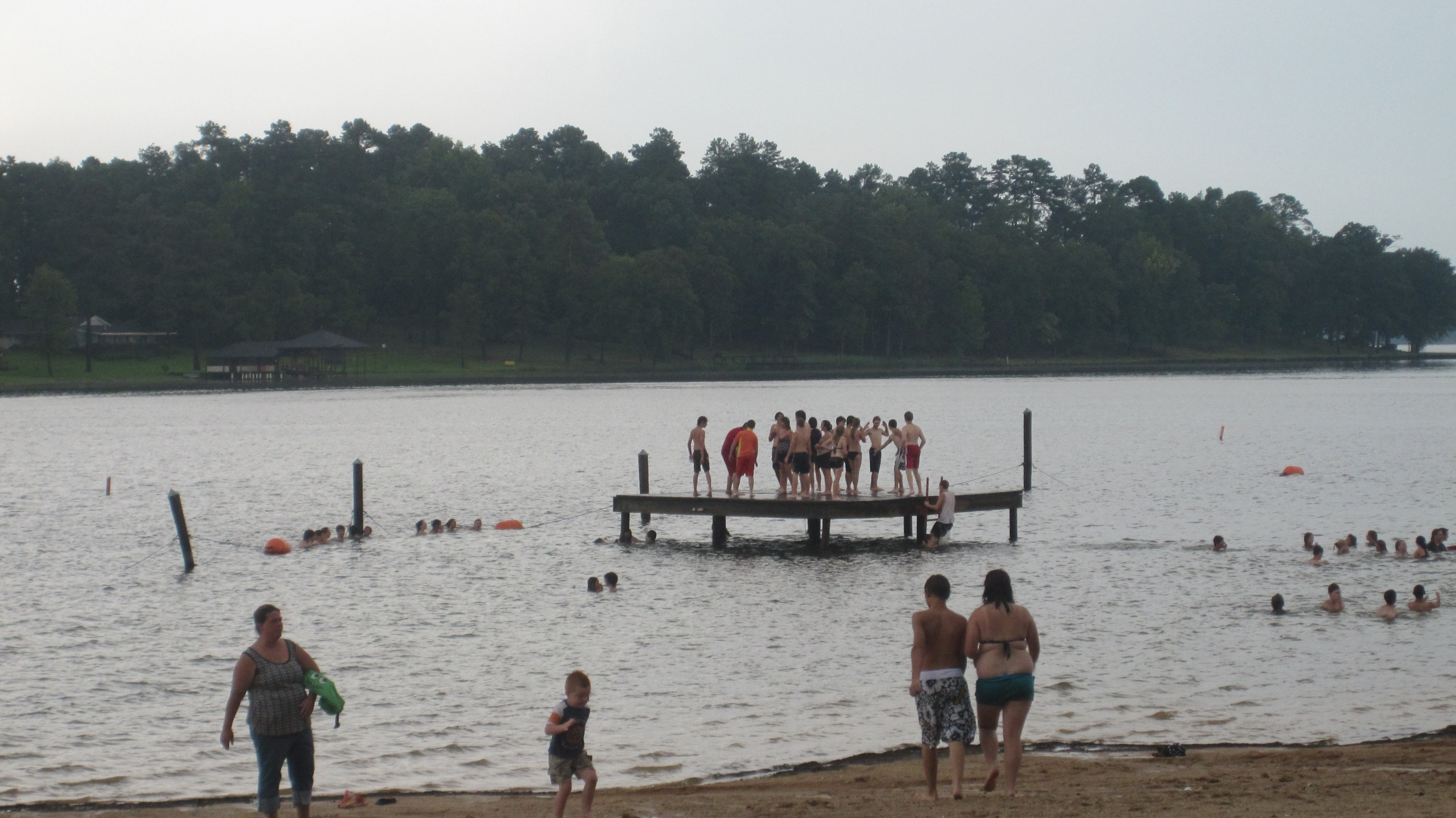 I took photo with Canon camera in Bossier Parish, LA.